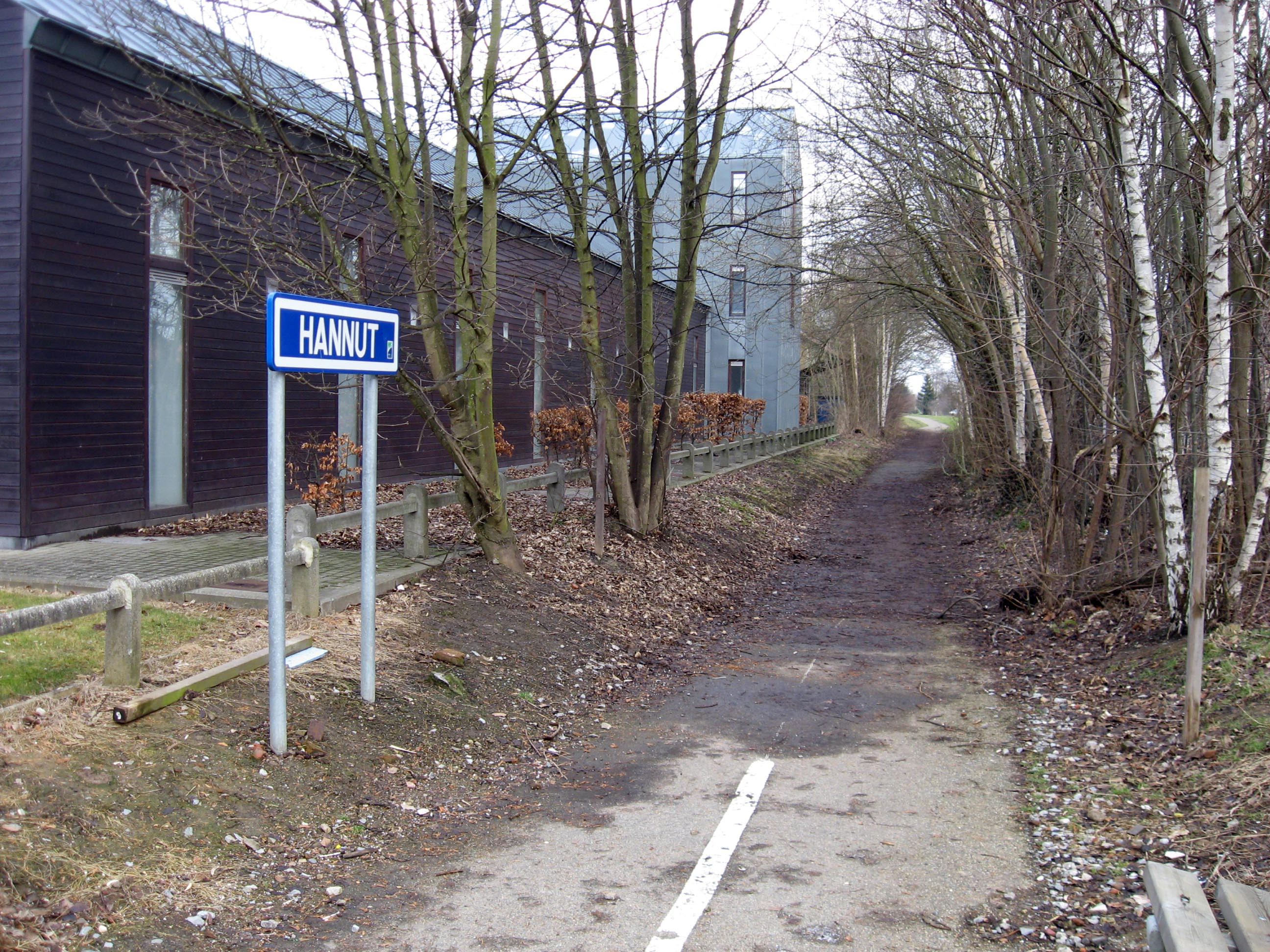 Hannut station. Now a bicycle path.